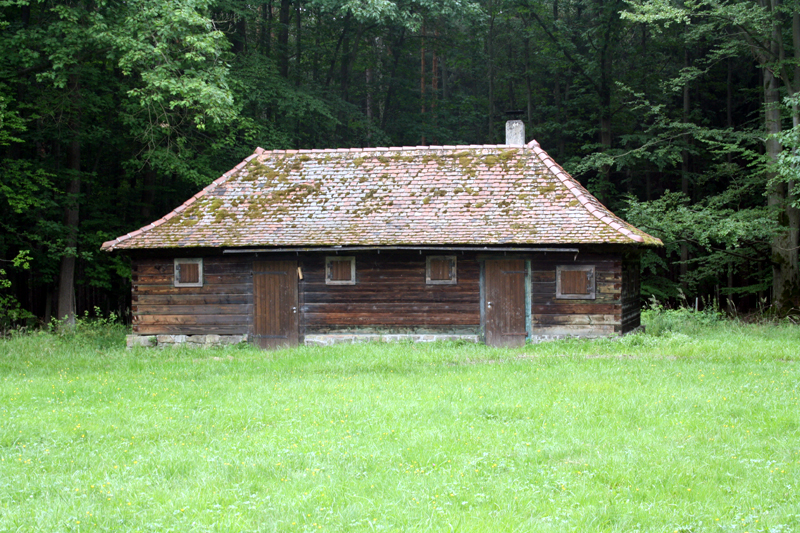 Blockhaus am Grünen Haus